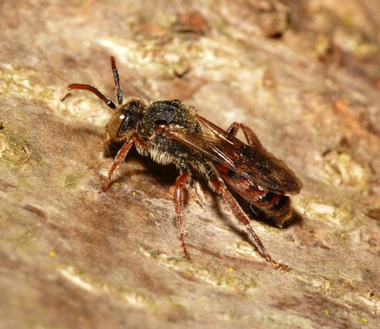 Nomada stigma, male. Location: Rhenen - Blauwe Kamer (The Netherlands)